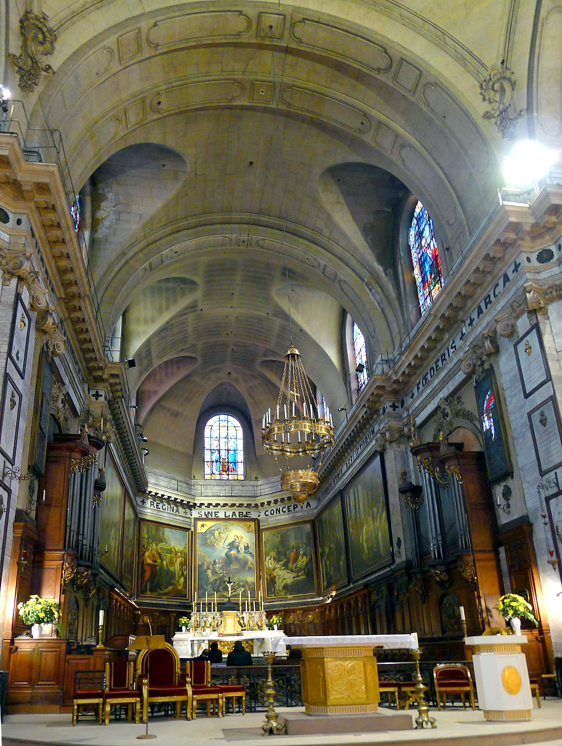 Notre-Dame-des-Victoires church - Paris